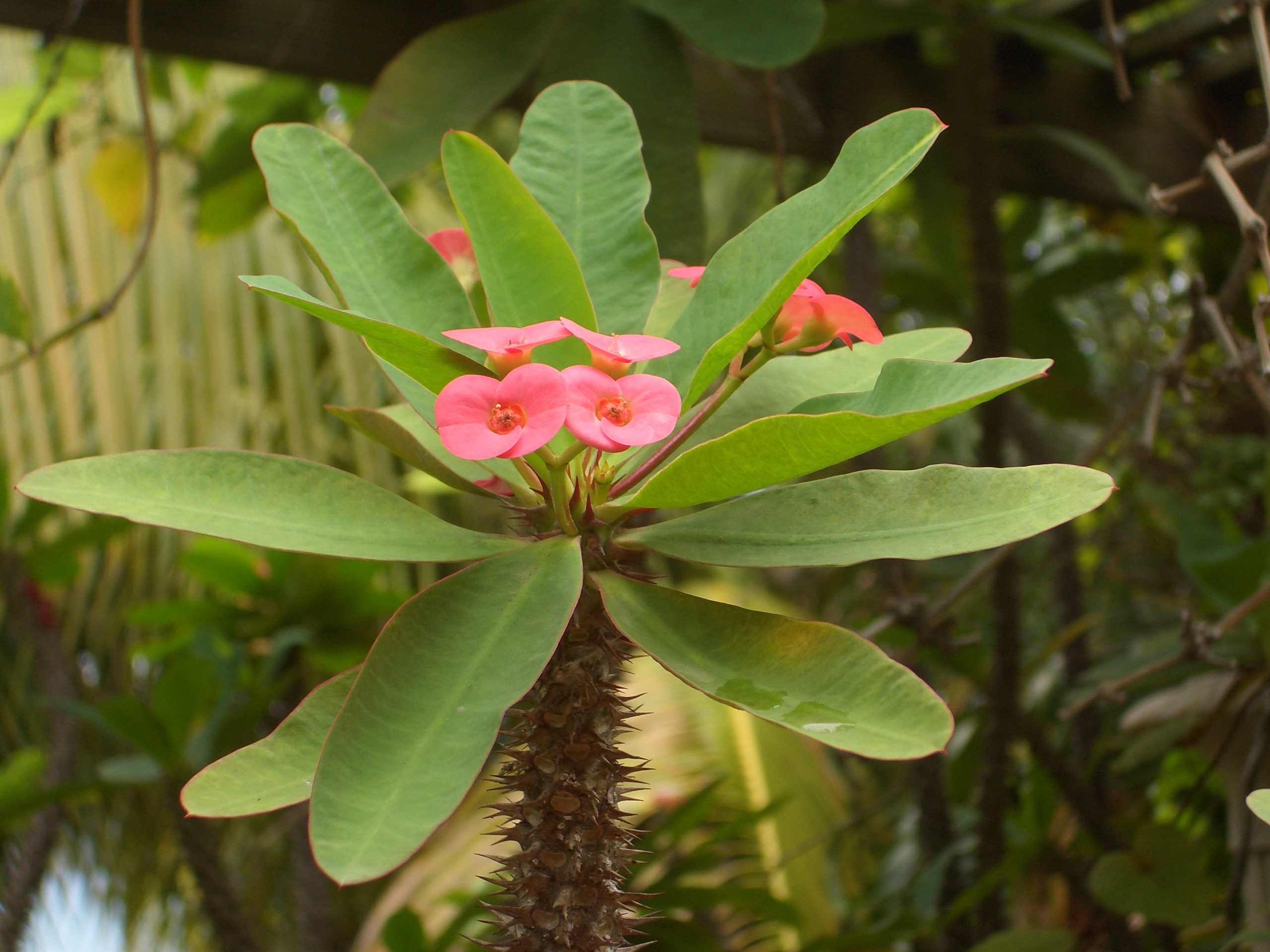 Euphorbia milii var. splendens in Charlotte Amalie, St. Thomas, United States Virgin Islands.